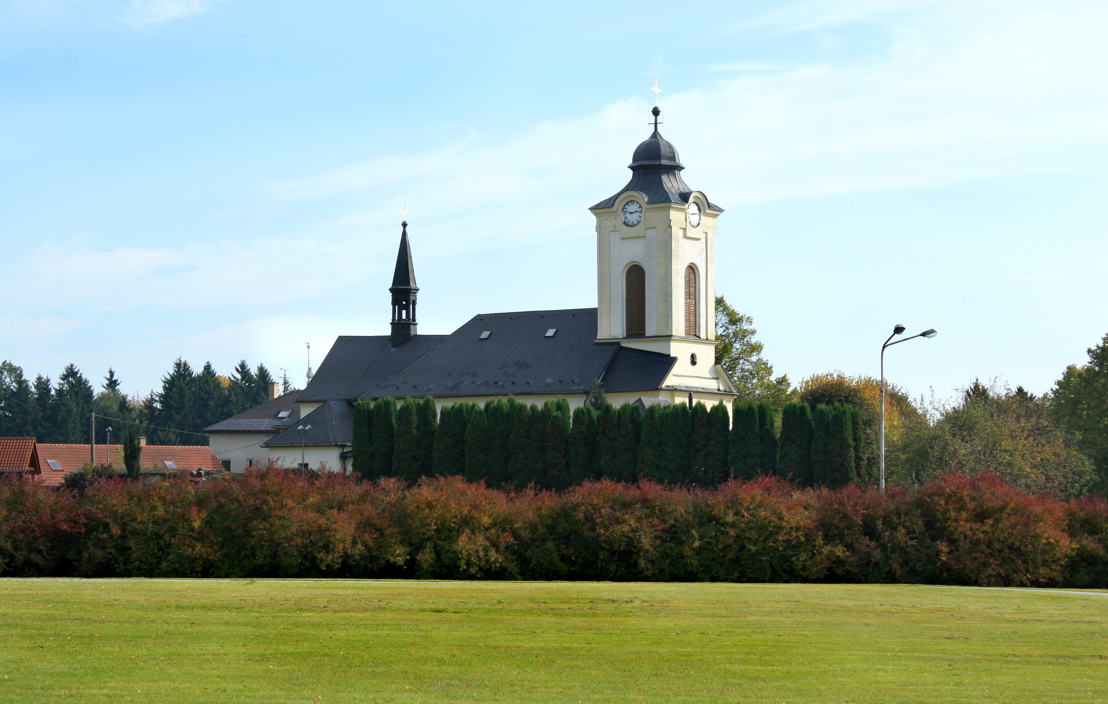 Church in České Libchavy, Czech Republic